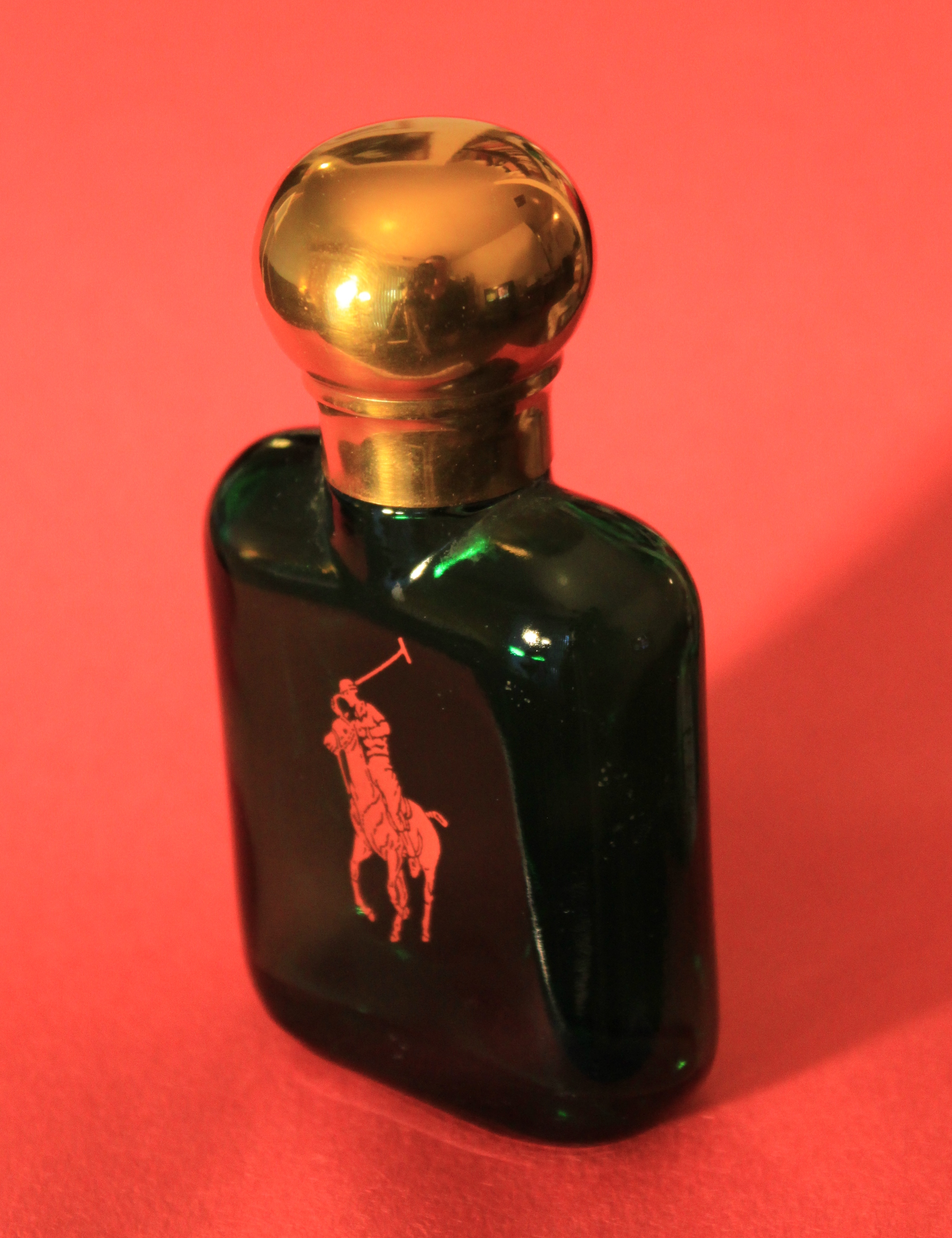 Ralph Lauren POLO cologne bottle.